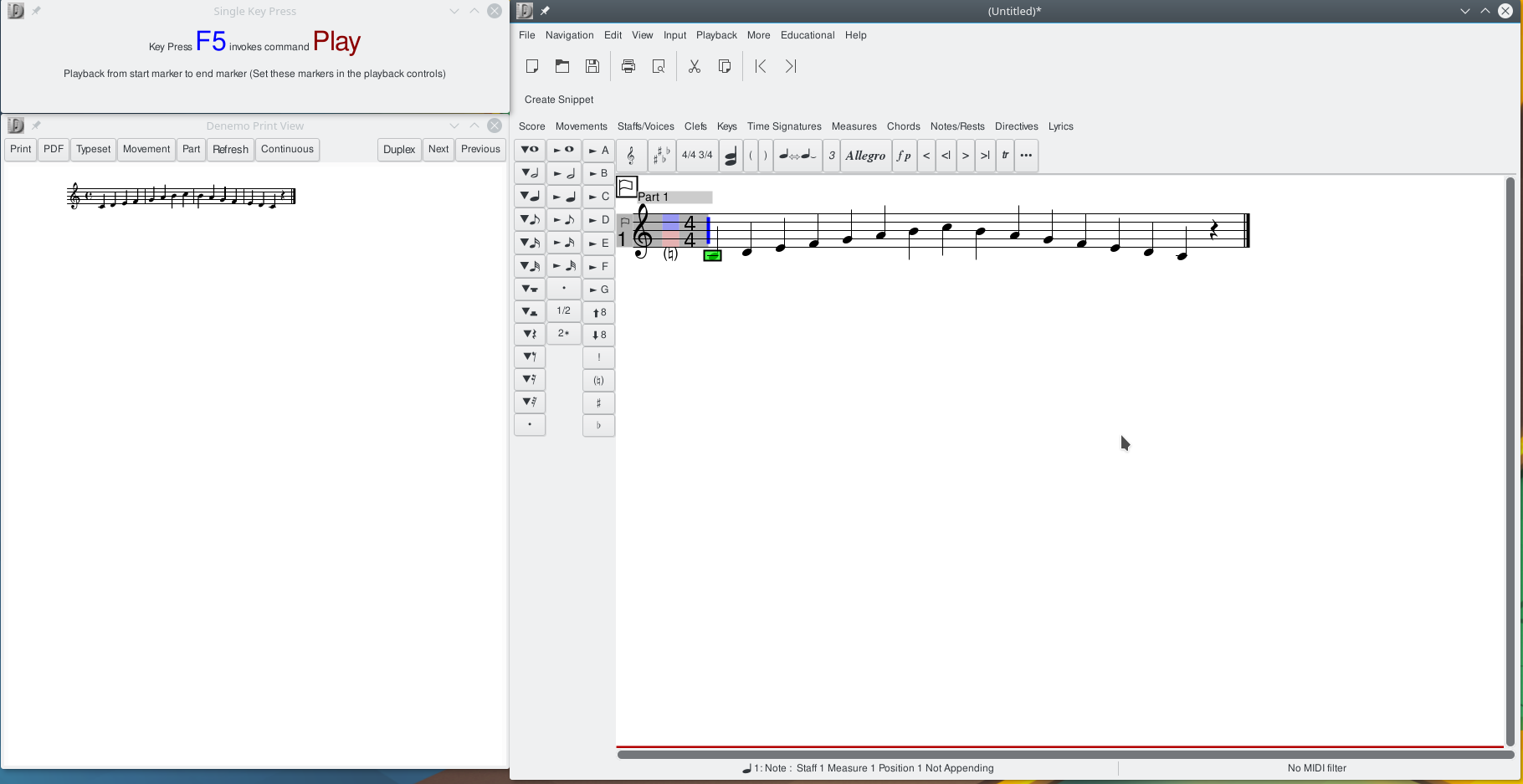 Denemo showing its editor window, shortcut window, and a print view of the sheets.